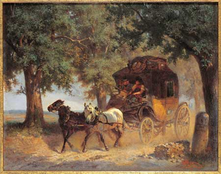 Mail coach journey: oil on canvas